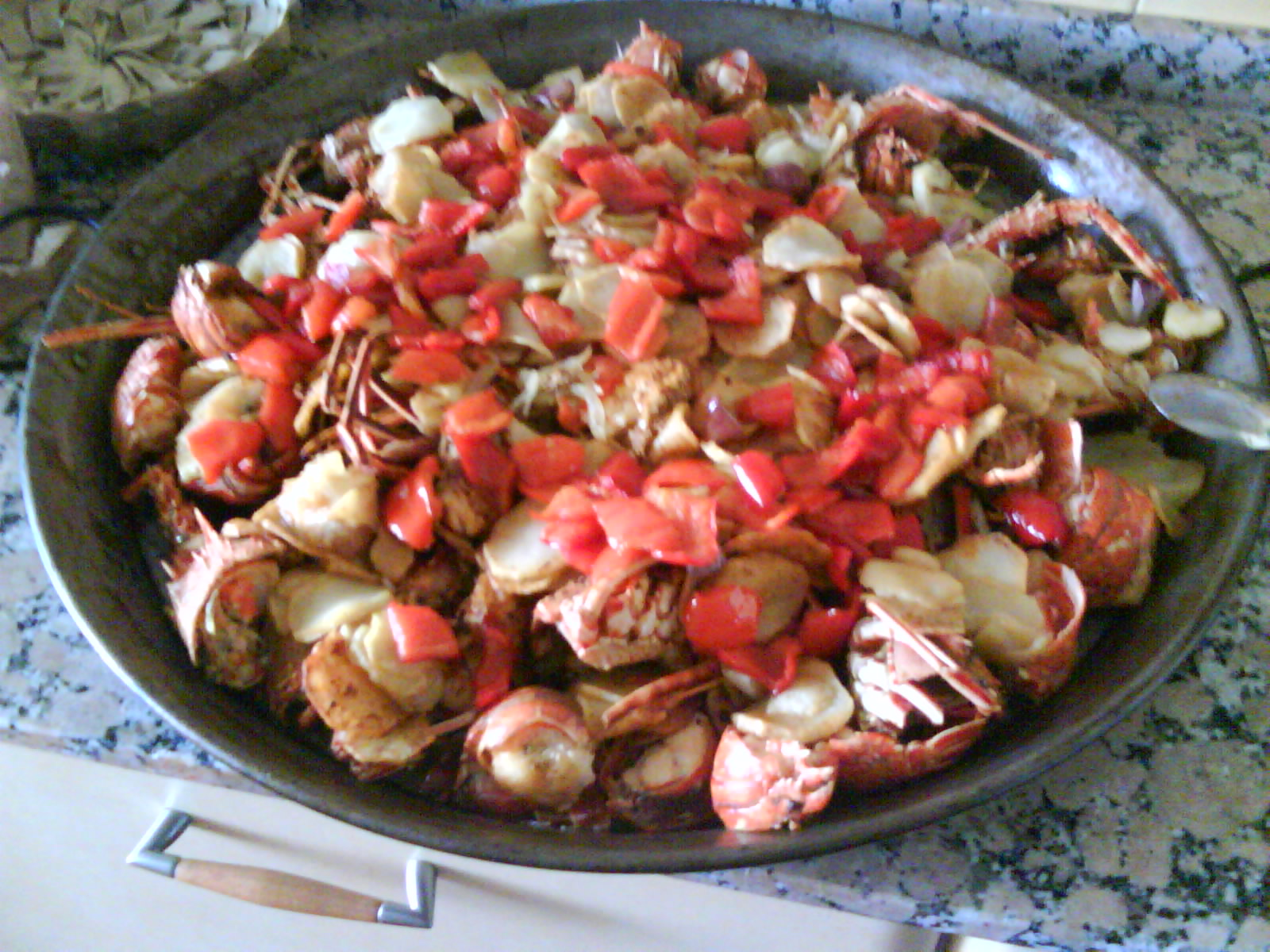 Civet of spiny lobster